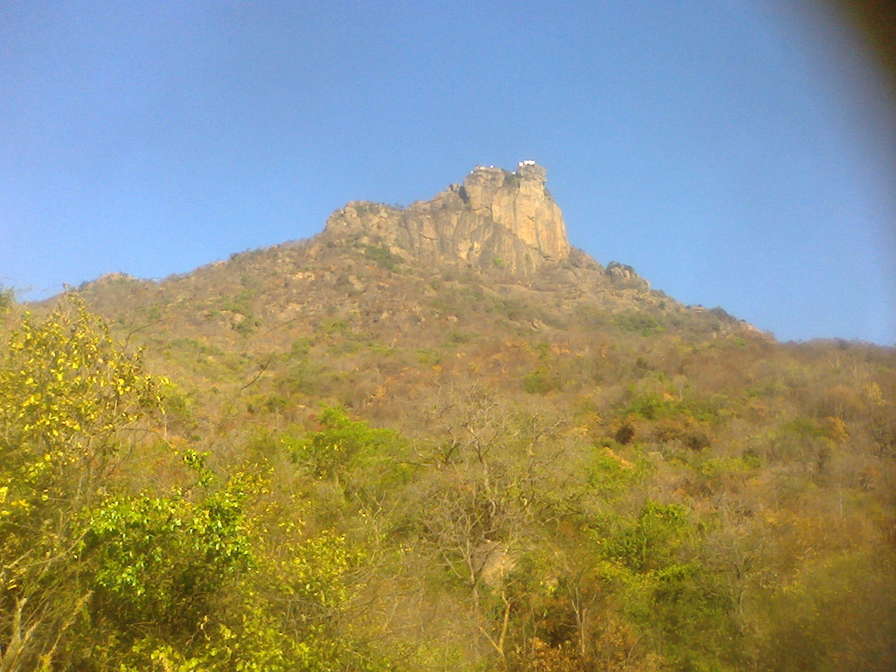 பர்வத மலை